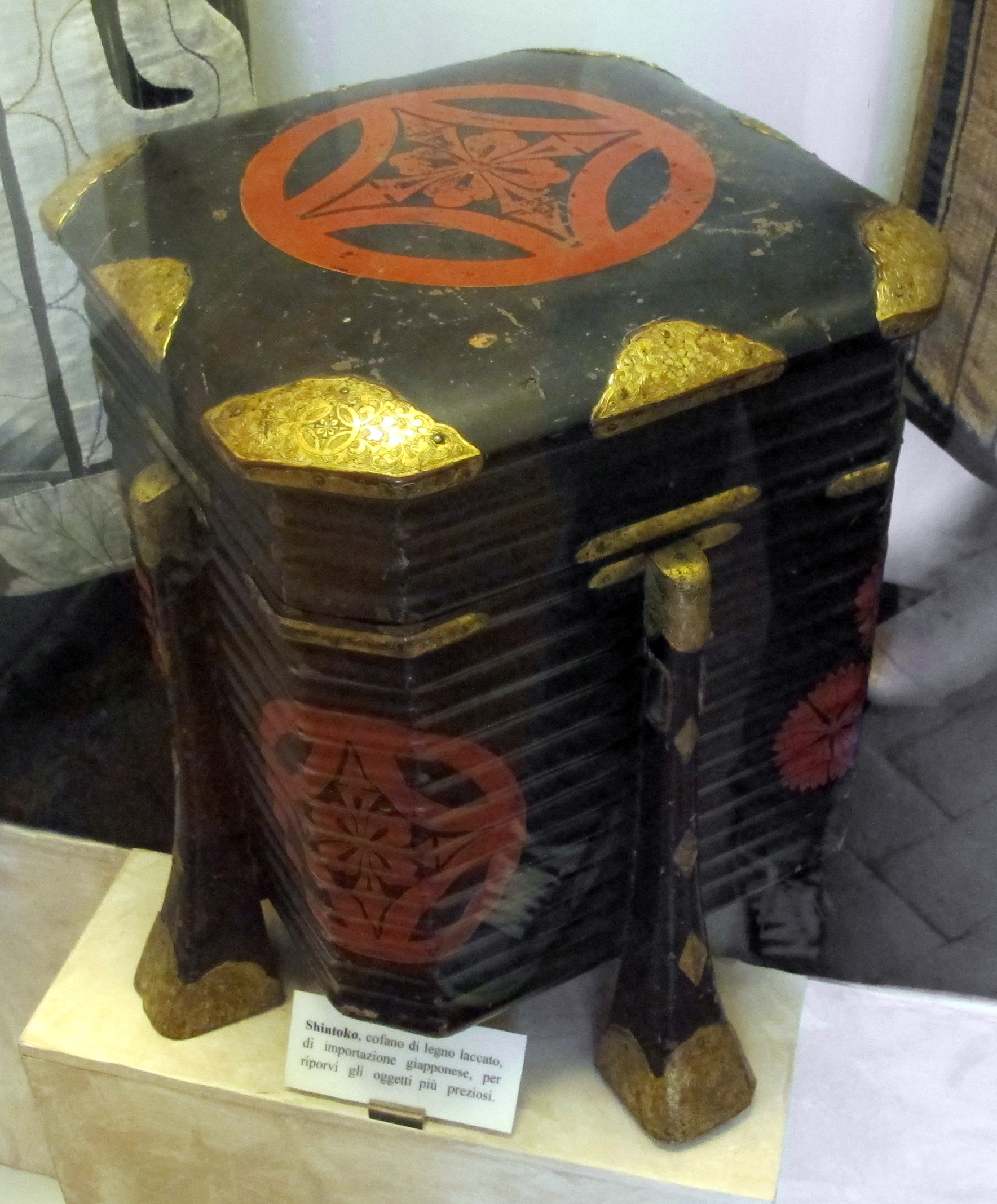 Museo di storia naturale (Florence) - Anthropology and Ethnography section